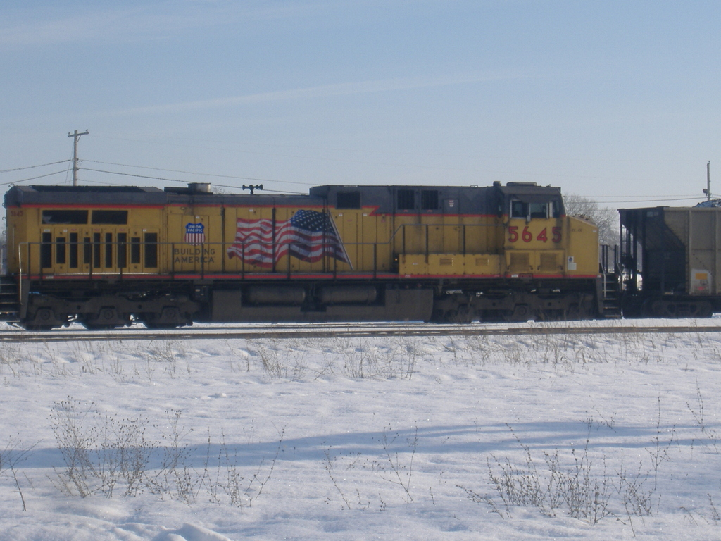 UP Loco No.5645 Battle Creek, Michigan